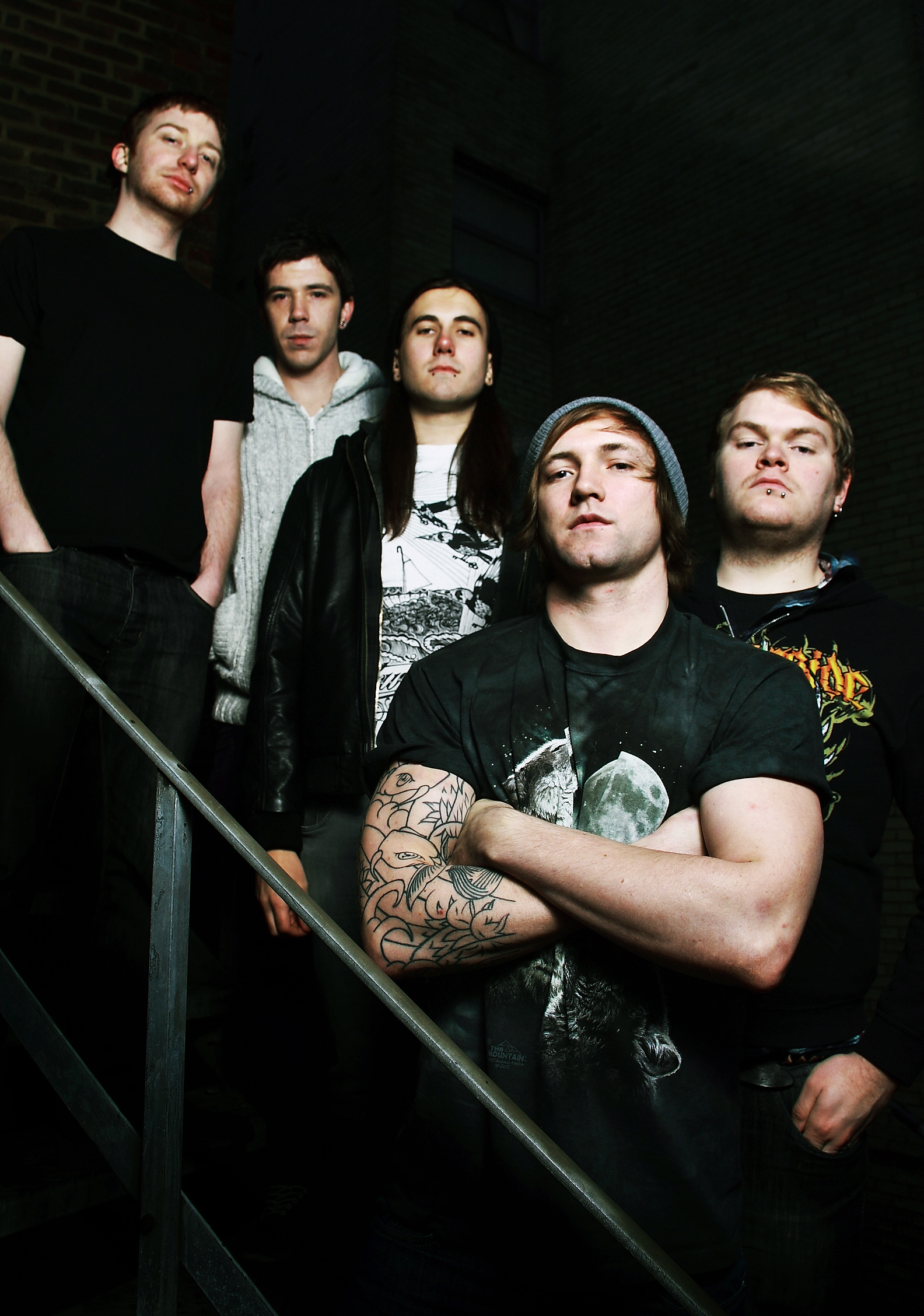 A press photo of the band The Divided